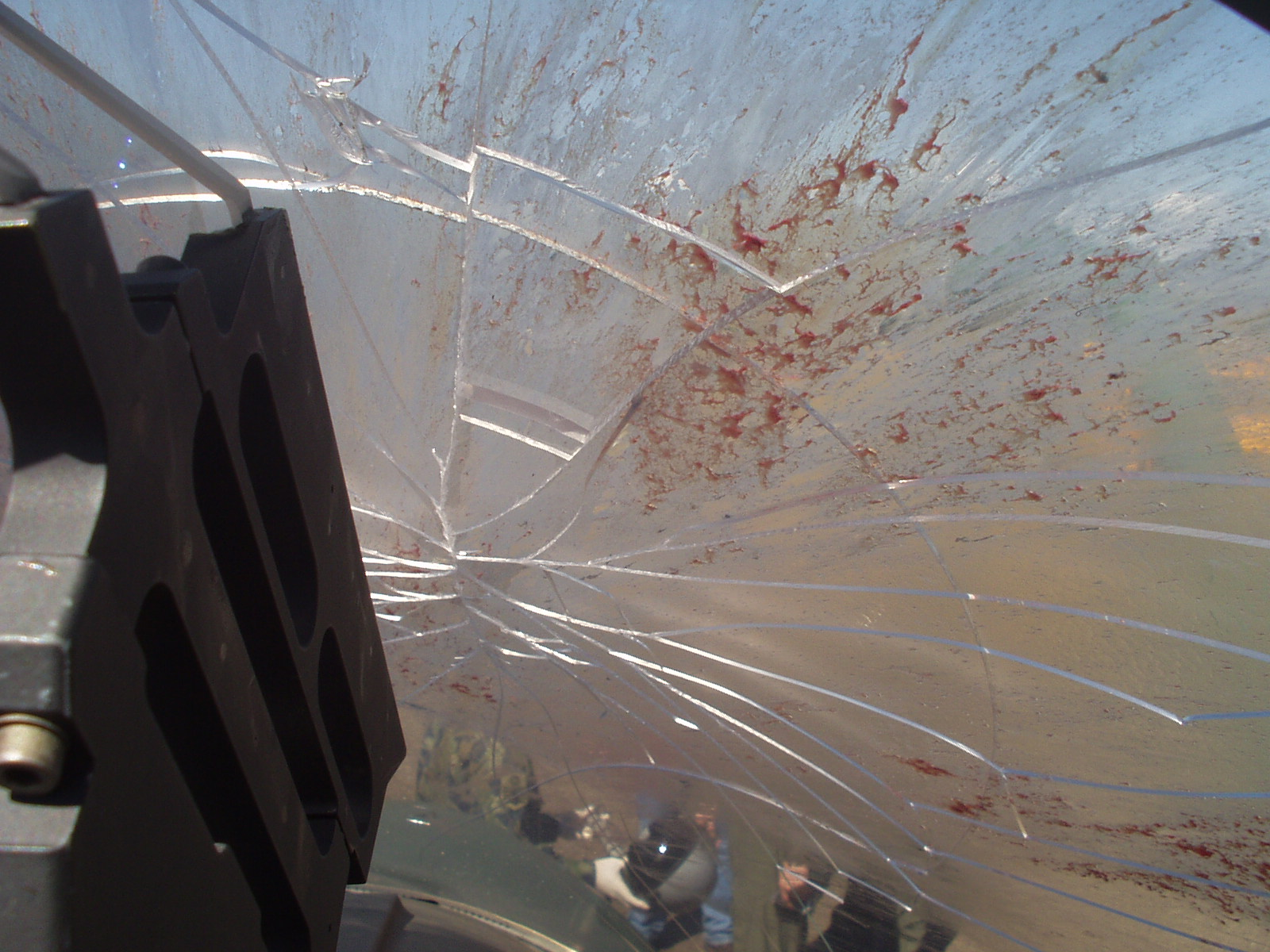 Bird Strike during low level navigation - aircraft AMX - Brazilian Air Force